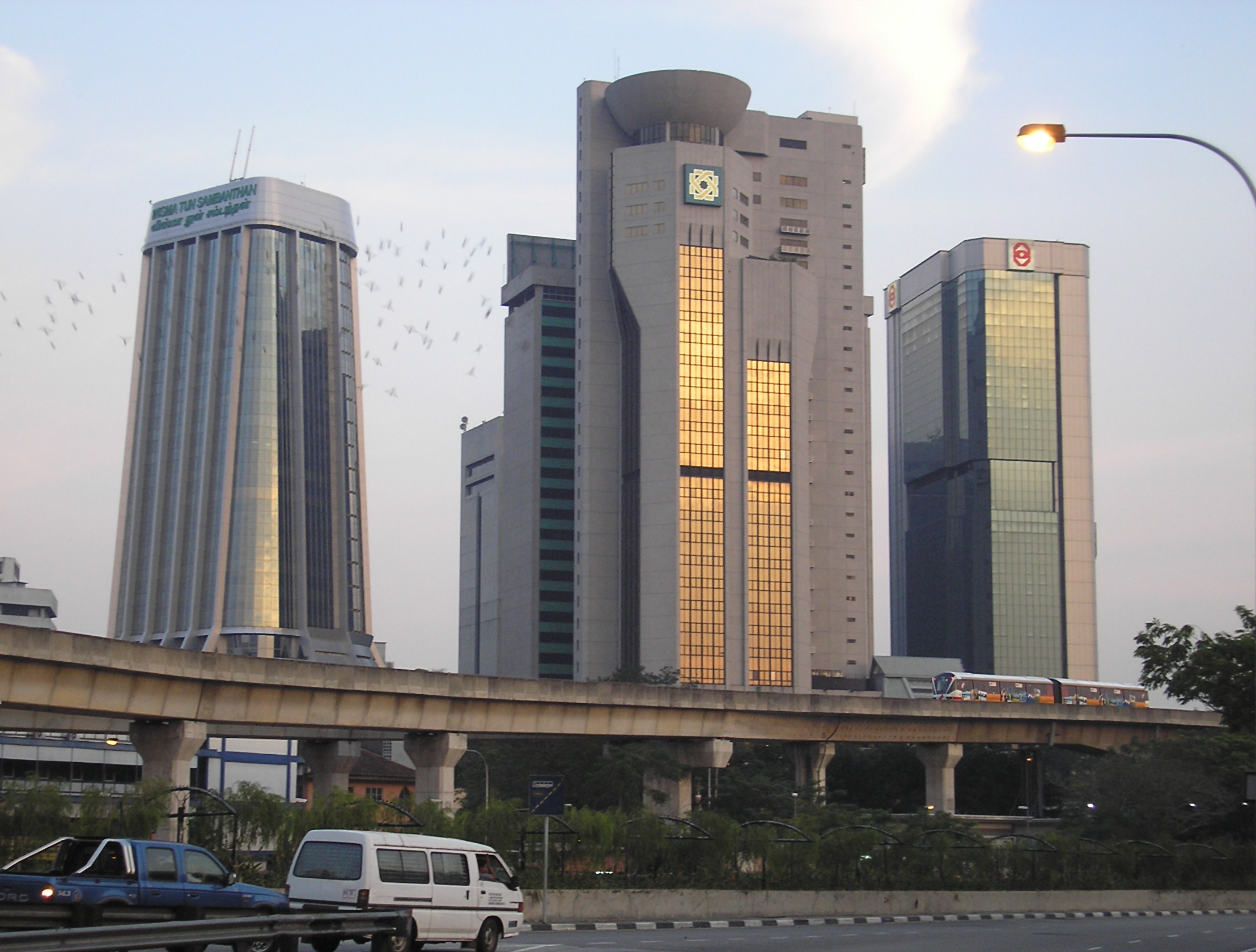 A set of skyscrapers lined along Jalan Sultan Sulaiman (previously Suleiman Road) at the southern end of central Kuala Lumpur, Malaysia, neighbouring Kampung Atap to the south. The cluster includes (from left to right) Wisma Tun Sambatan, Wisma KWSG (short building partially visible in the background), the Takaful Nasional building (consisting of two buildings: one the background with a green facade, and another with a curved ornament on the top and unconventional design), and the Public Finance Bank building.